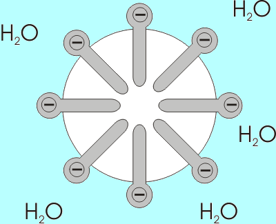 Micelle in a soap sud